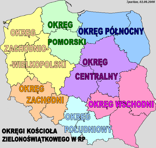 istricts of the Polish Pentecostal Church